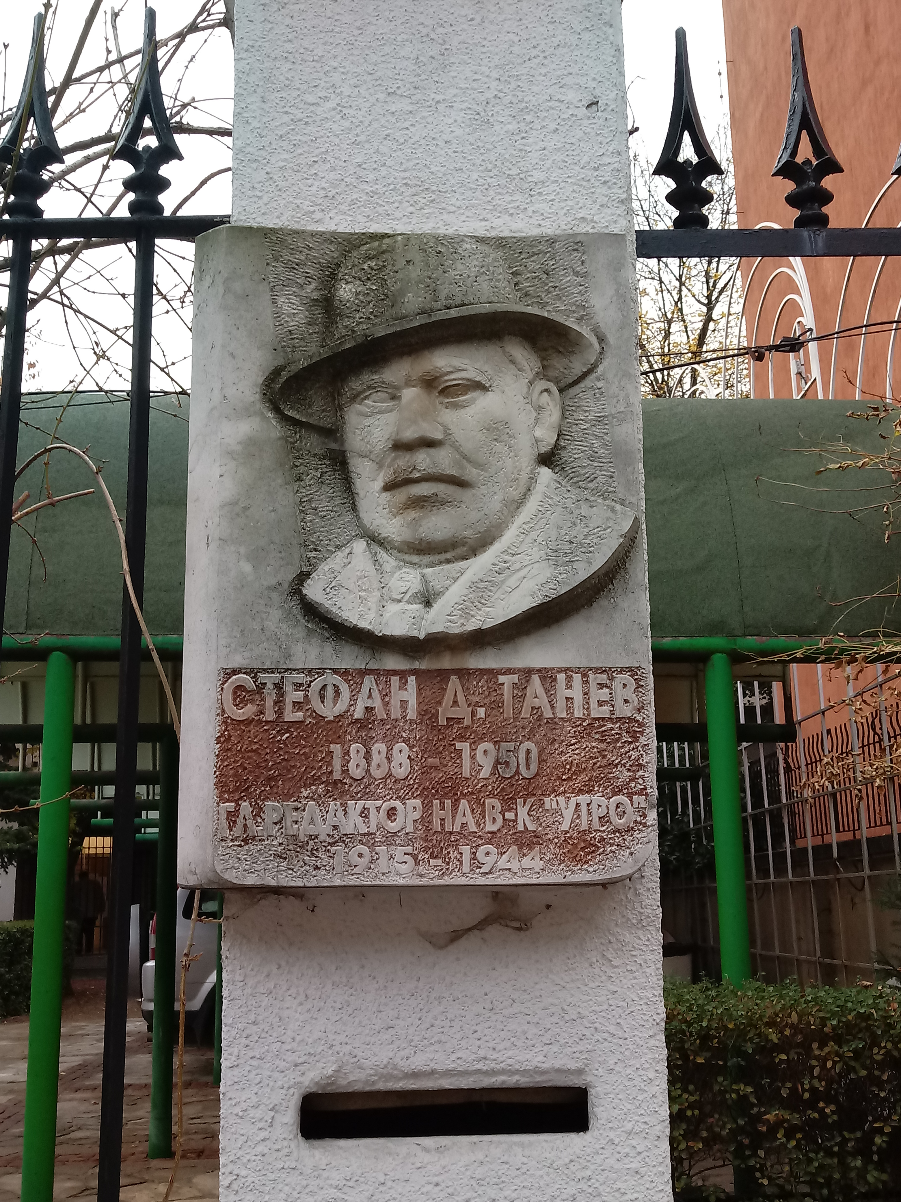 Паметна плоча на Стефан Танев, главен редактор на вестник "Утро" на ул. "Васил Априлов" 3, София